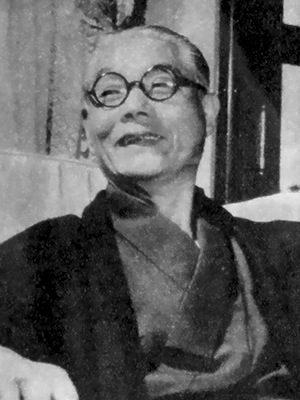 Hachirō Arita